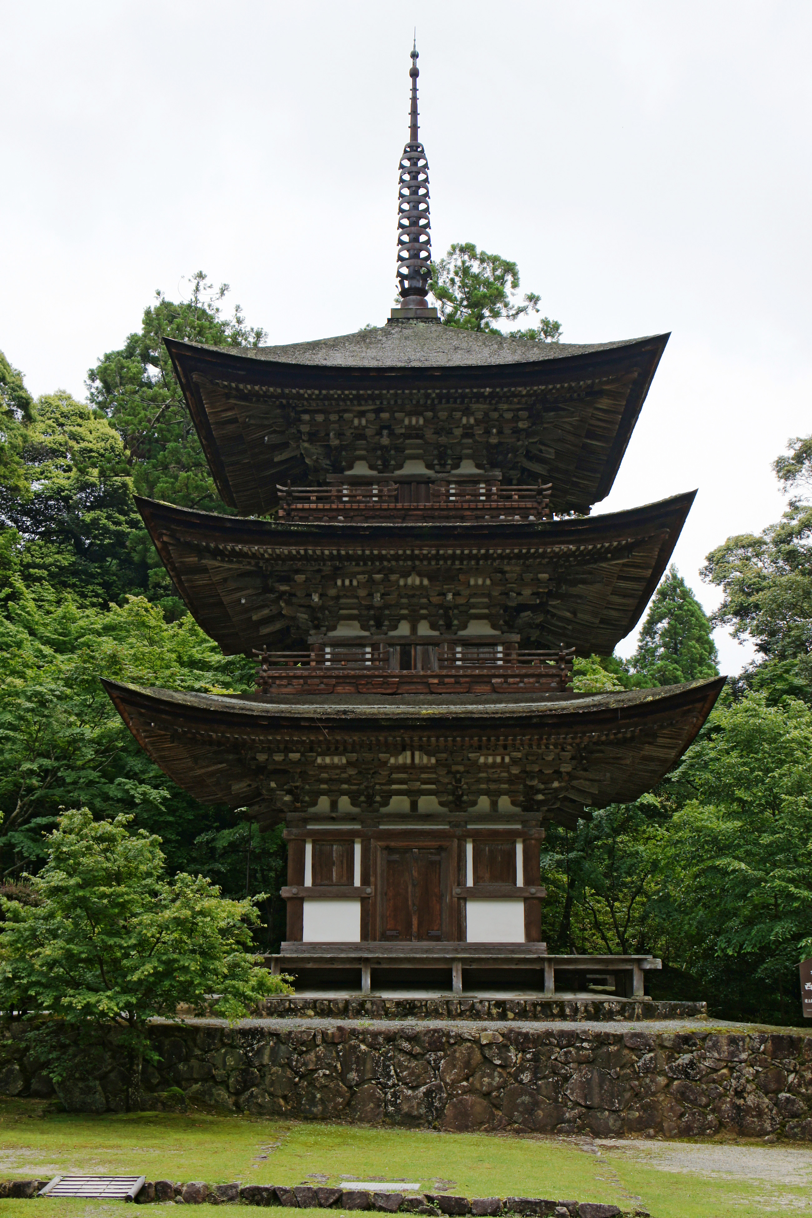 Saimyō-ji's Three-storied Pagoda is a Japan's National Treasure in Kora, Shiga prefecture, Japan.